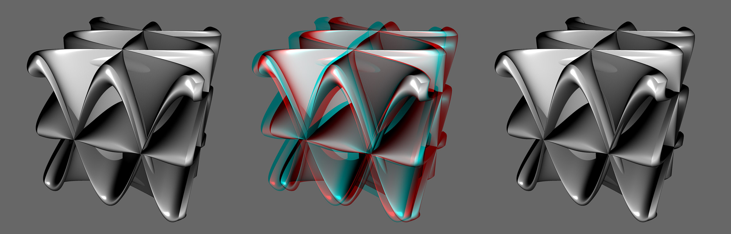 Anaglyph composition - anaglyph and two source images